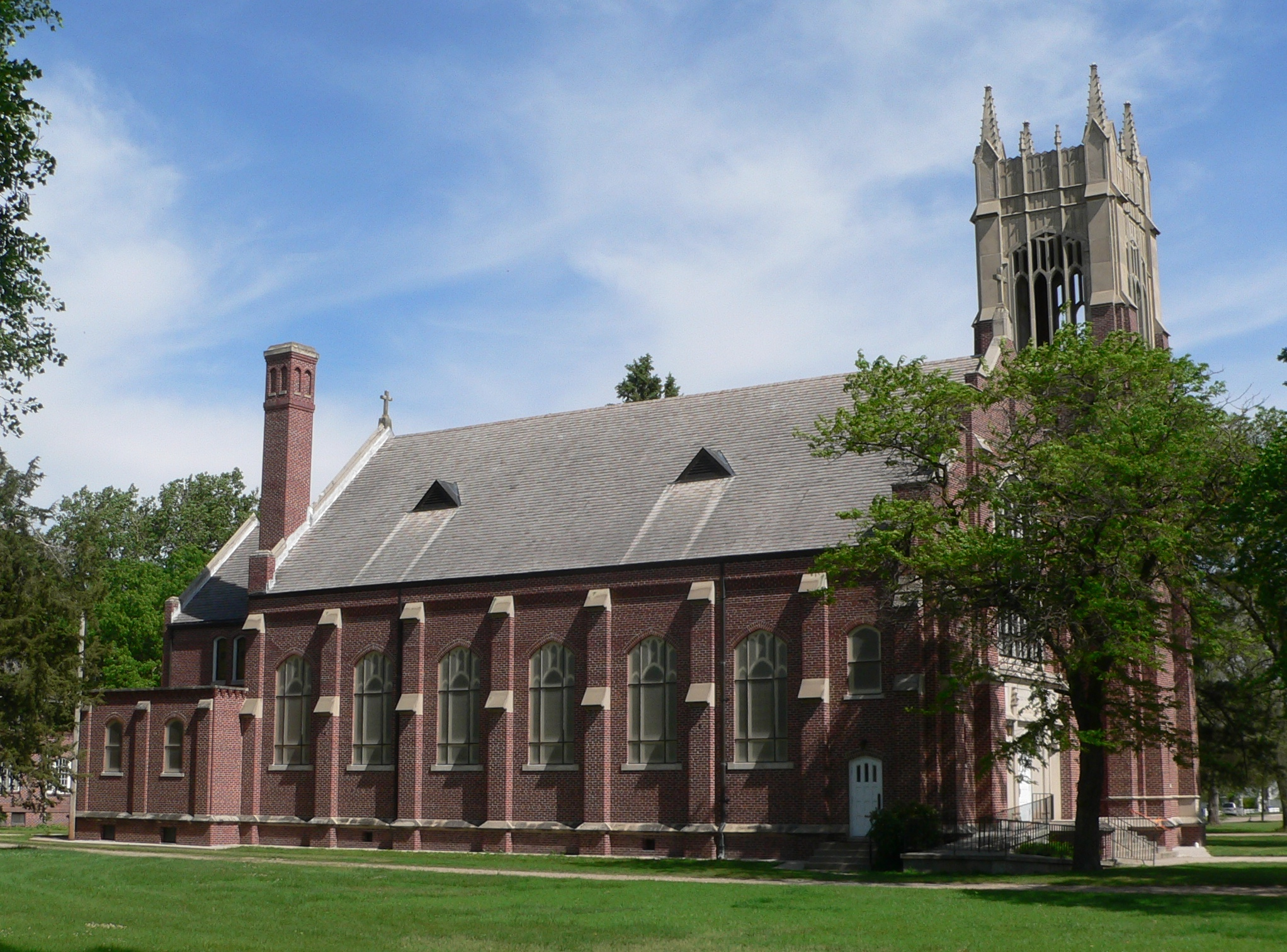 St. Anselm's Church in Anselmo, Nebraska; seen from the southwest. The Gothic Revival church was constructed in 1928. The St. Anselm's complex, which includes the church, rectory, and parish hall, is listed in the National Register of Historic Places.